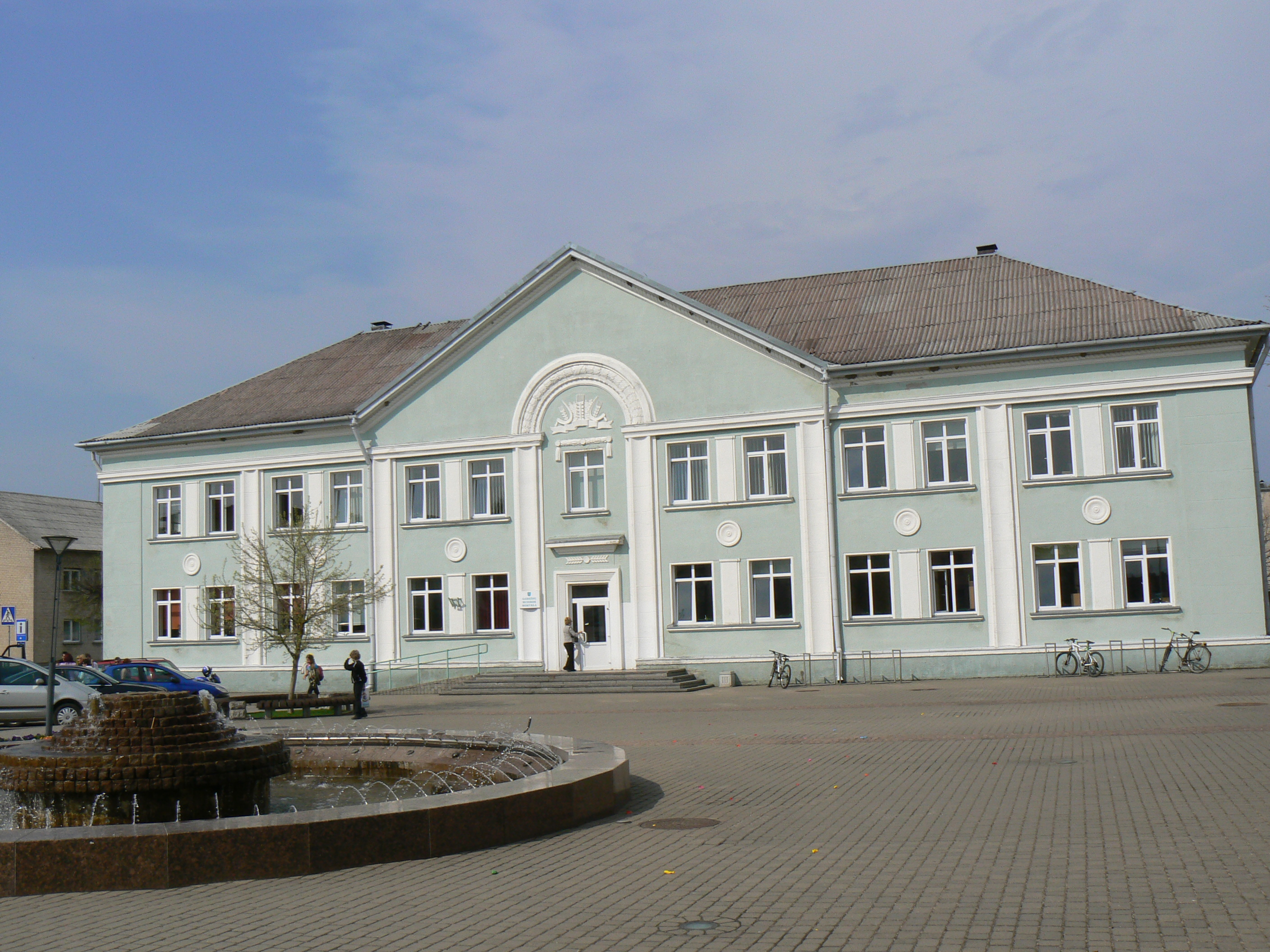 Children Music School of Gargždai was established in 1965.